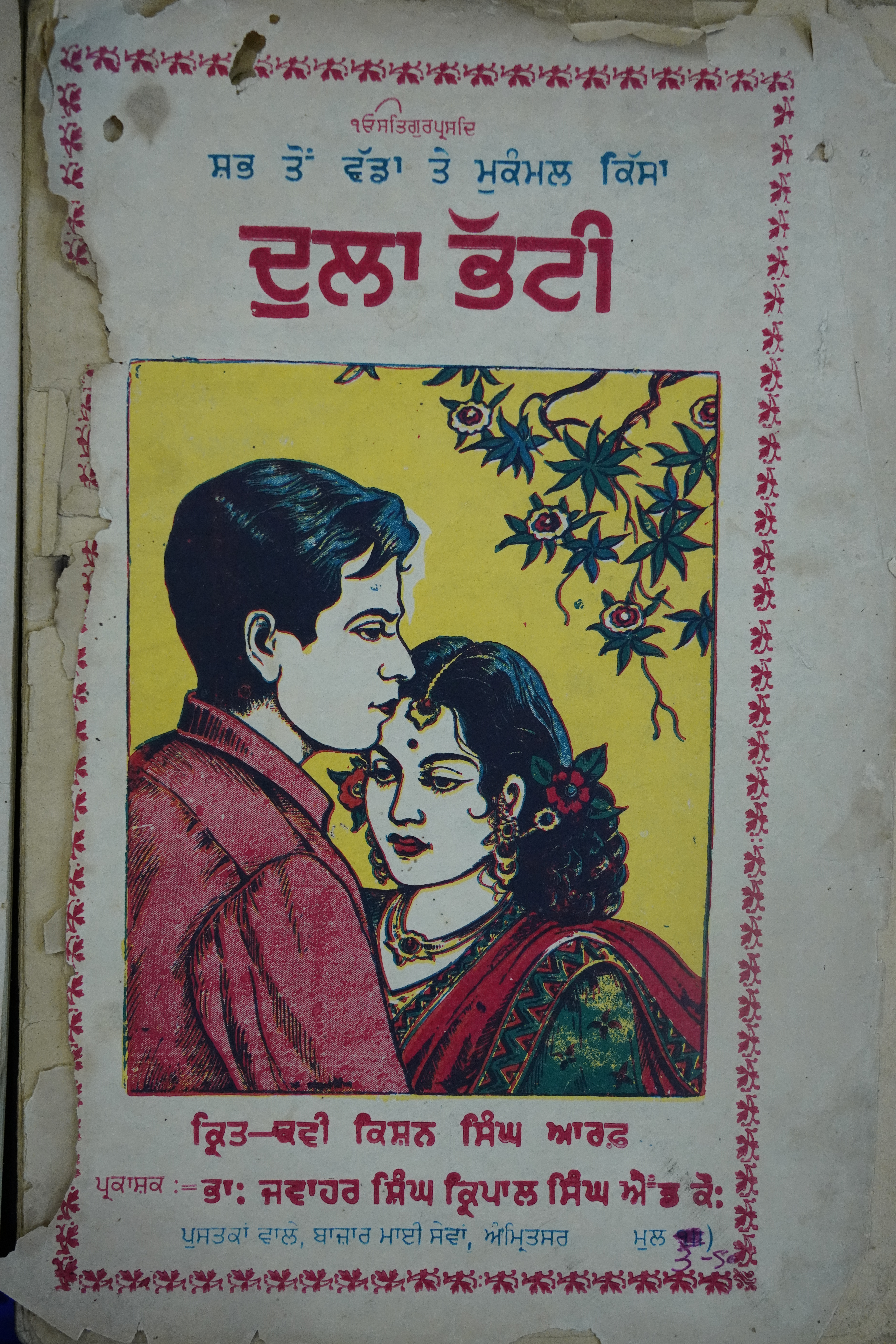 Punjabi Qissa - Puran Bhagat (Cover)